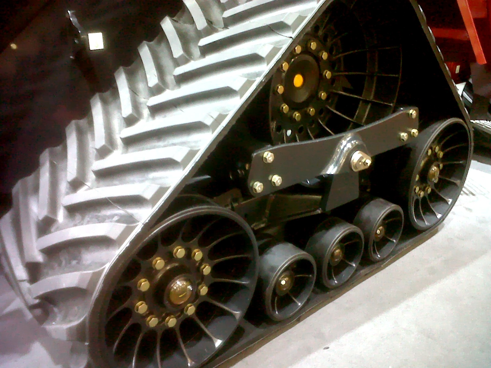 Rubber track for an agricultural machine